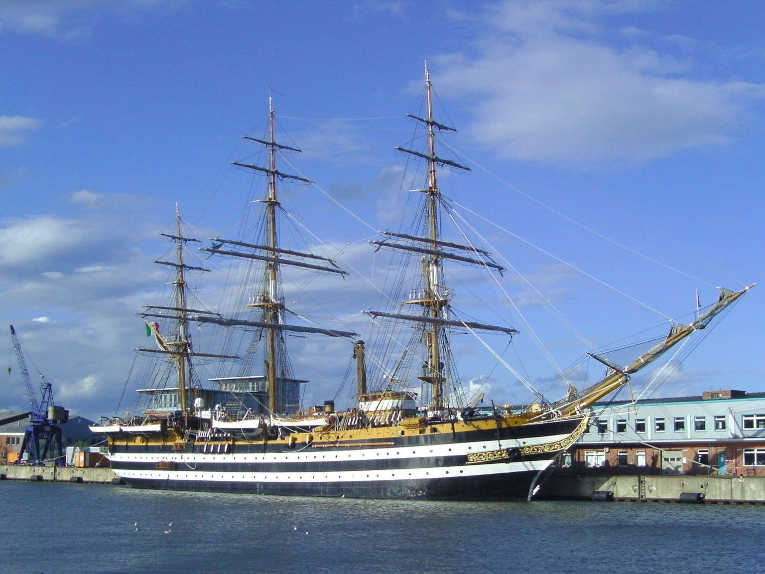 The Italian sail training ship Amerigo Vespucci in Bremerhaven, Germany